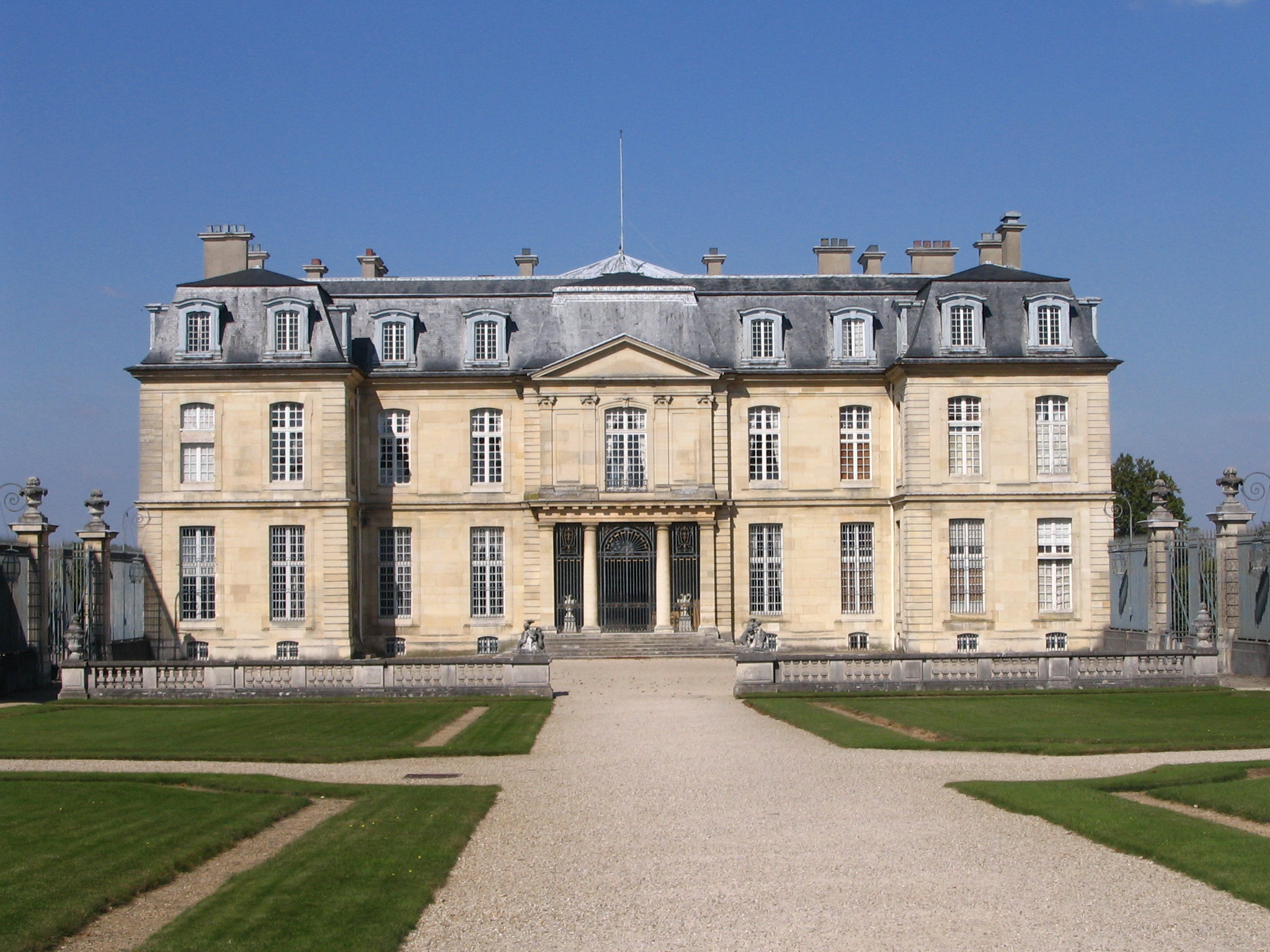 The castle of Champs-sur-Marne, Seine-et-Marne, France.